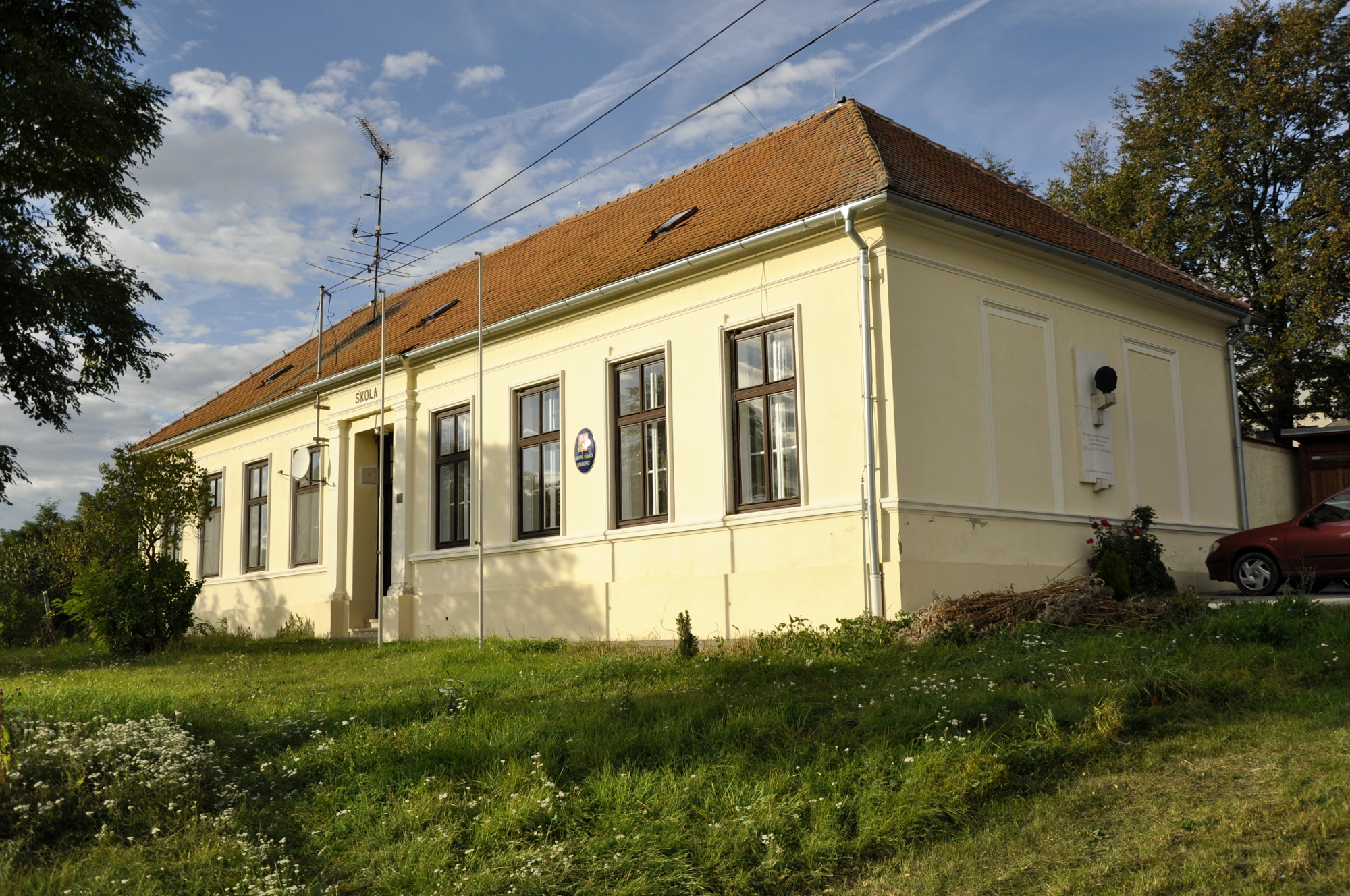 Biskoupky, Brno-Country District, Czechia. Former school, birth house of Vítězslav Nezval. Today a municipal office.